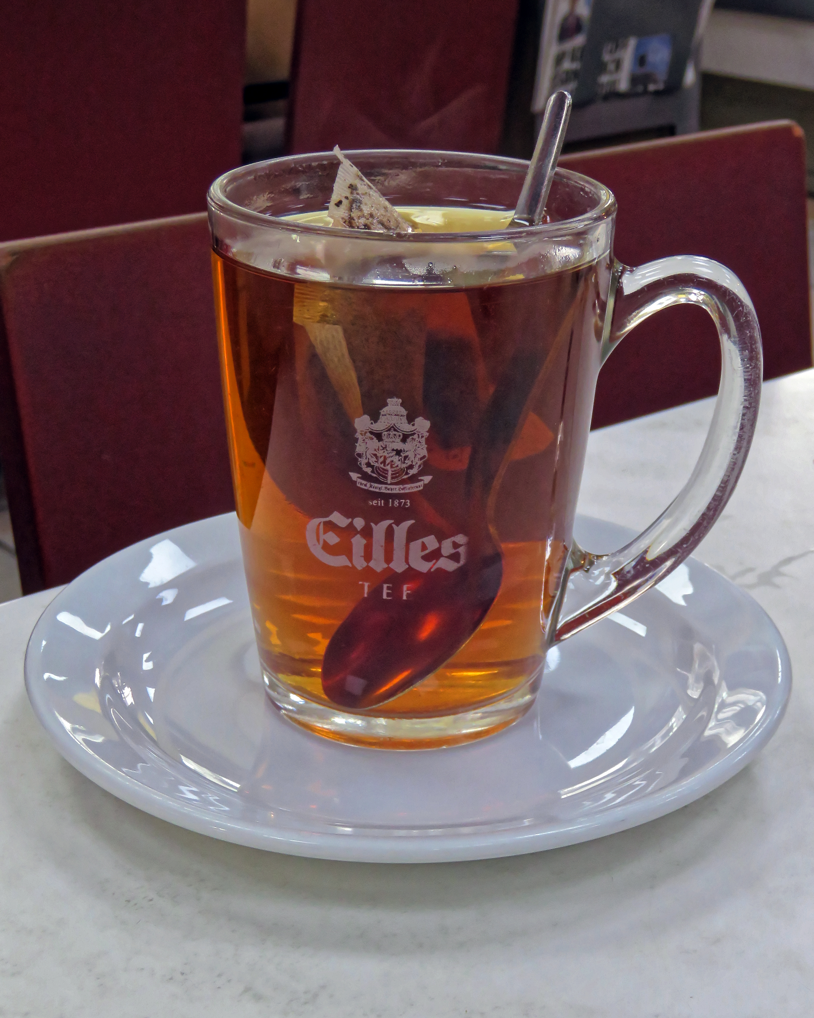 A glass mug with Earl Grey tea bag at Cafe Express on York Way, in Camden, London, England.Mobile device view: Wikimedia (as at 2019) makes it difficult to immediately view photo groups related to this image. To see its most relevant allied photos, click on Earl Grey tea, and this uploader's Food and drink photos. You can add a beta click-through 'categories' button to the very bottom of photo-pages you view by going to settings... three-bar icon top left.Desktop view: Wikimedia (as at 2019) makes it difficult to immediately view the helpful category links where you can find images related to this one in a variety of ways; for these go to the very bottom of the page.This image is one of a series of date and/or subject allied consecutive photographs kept in progression or location by file name number and/or time marking.Camera: Canon PowerShot SX60 HS.Software: file lens-corrected and optimized with DxO PhotoLab 2 Elite and Viewpoint 3, and further optimized with Adobe Photoshop CS2.